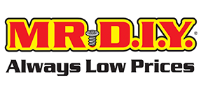 MR.DIY logo